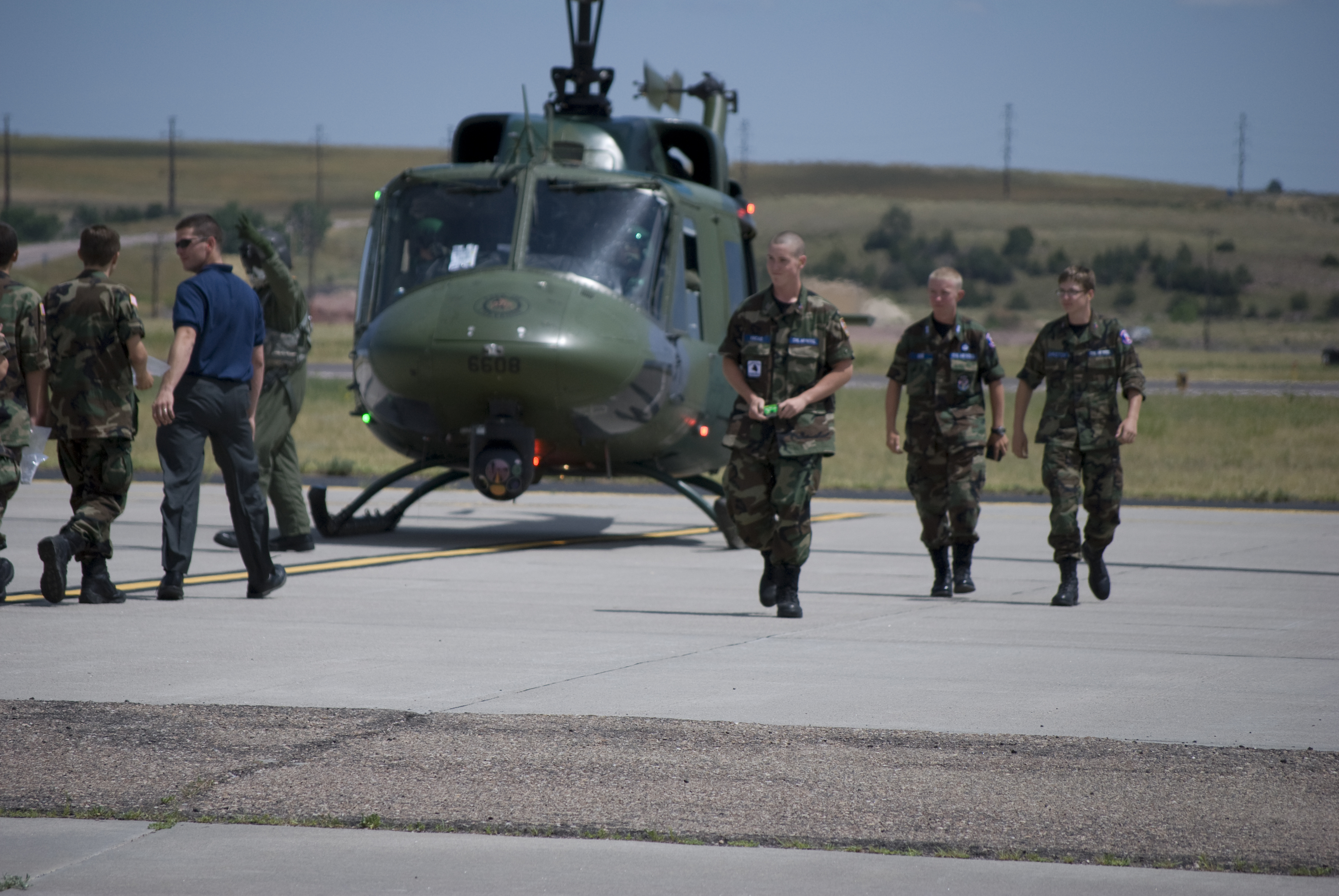 Civil Air Patrol Capt. Miguel Acevedo, Cheyenne, in left hand group, leads the next group of cadets, at Camp Guernsey, Wyo., to fly a UH1 from F.E. Warren Air Force Base, based in Cheyenne, Wyo. The “Huey” crew chief explains how to enter the aircraft. Returning from their flight, are Civil Air Patrol cadets, Cadet Senior Airman Chris Garcia, of Medical Lake, Wash.; left, Cadet 1st Lt. Ezekiel House, of Cheyenne, Wyo.; and Cadet Airman Zack Johnston, of Cody, Wyo.